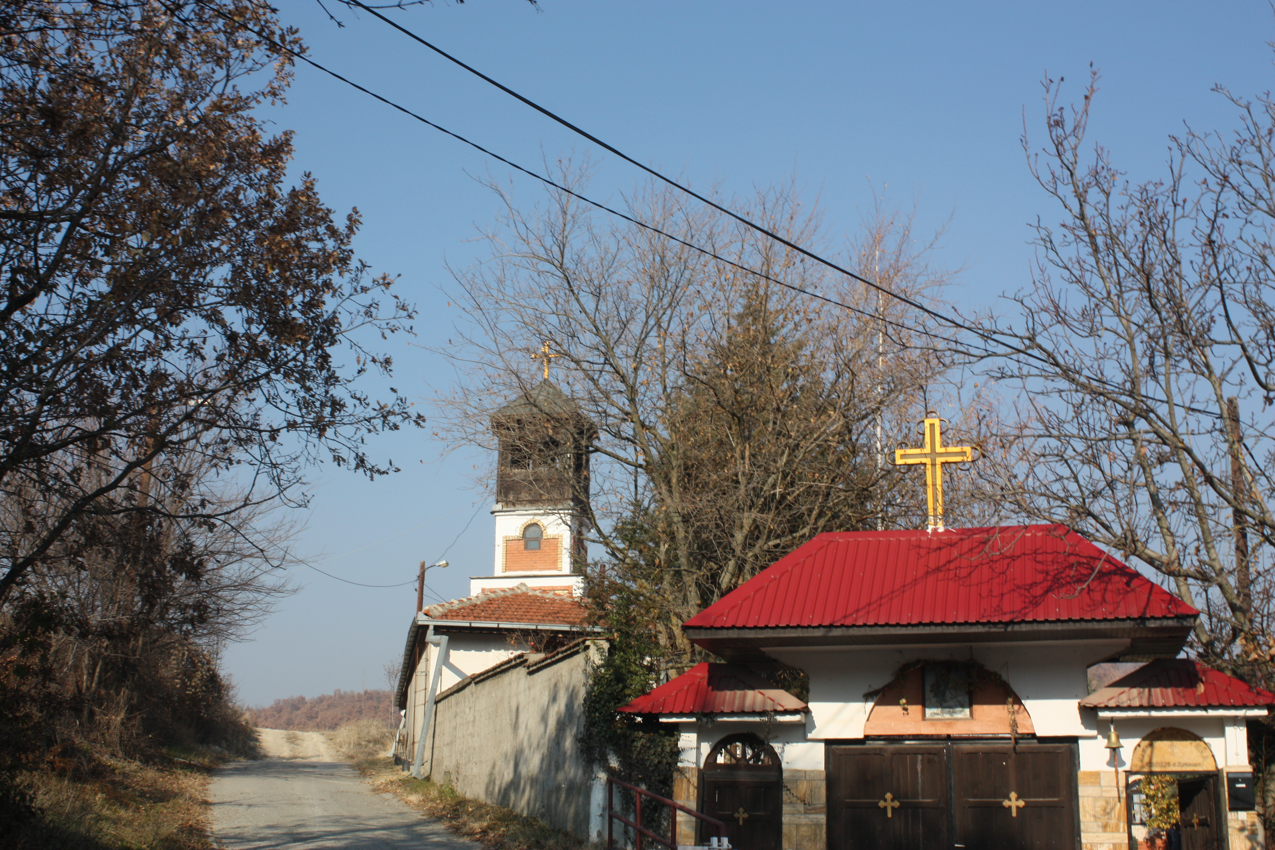 Kučkovo Monastery, Macedonia